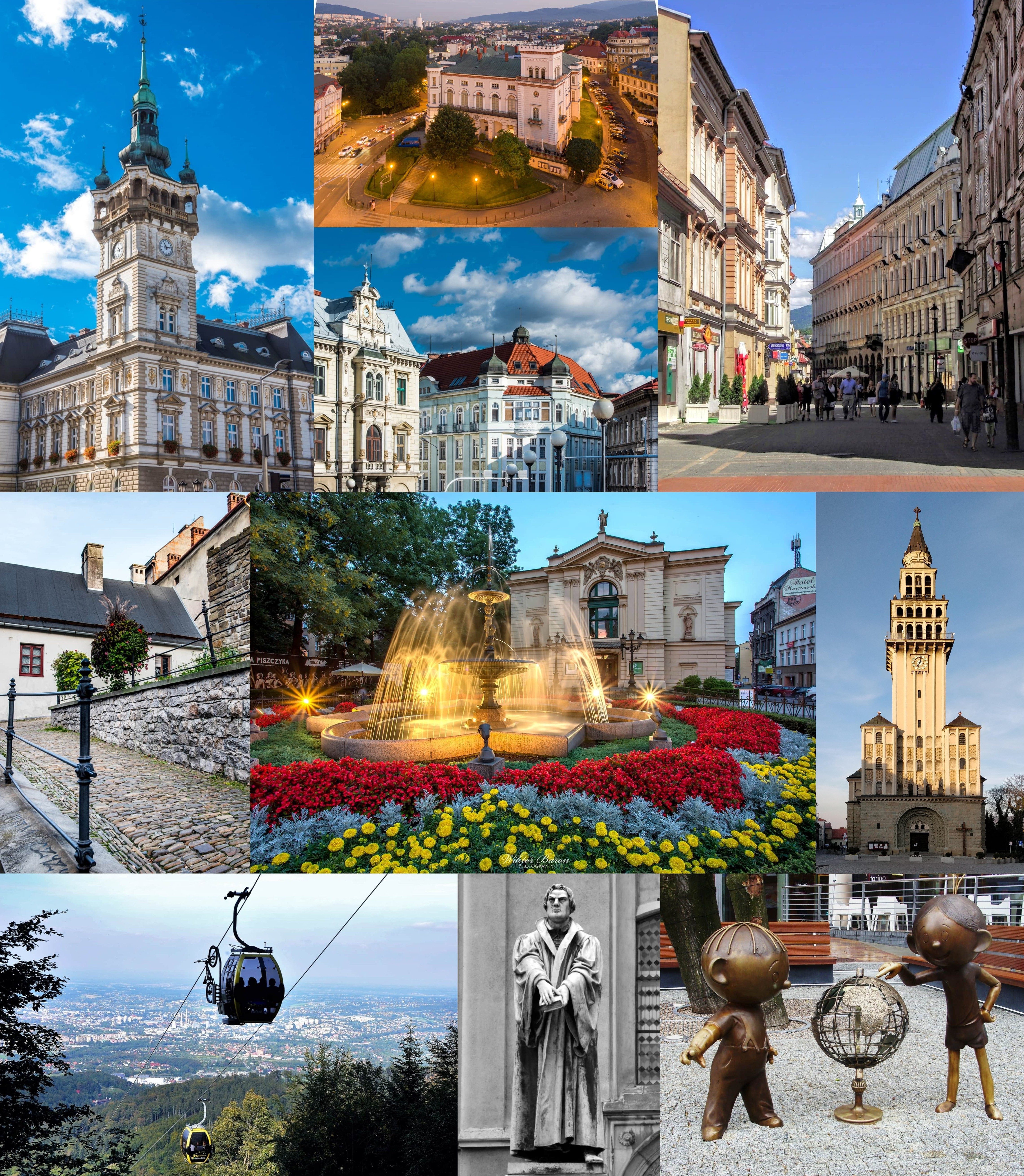 Montage of Bielsko-Biała - city in Poland. From upper left: panoramic view, Town Hall, "Pod Orłem" Hotel, Church of Saviour, Wojska Polskiego Square, Sułkowski Castle, 11 Listopada Street, Polish Theater, Cathedral of St. Nicholas, Church of Martin Luther, special economic zone.